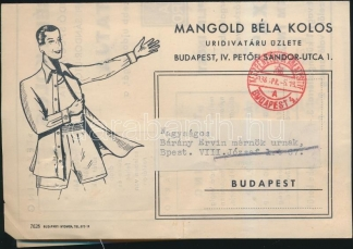 1938 Bp.IV., Mangold Béla Kolos úri divatáru üzletének levelezőlapja és szórólapja anyagmintával